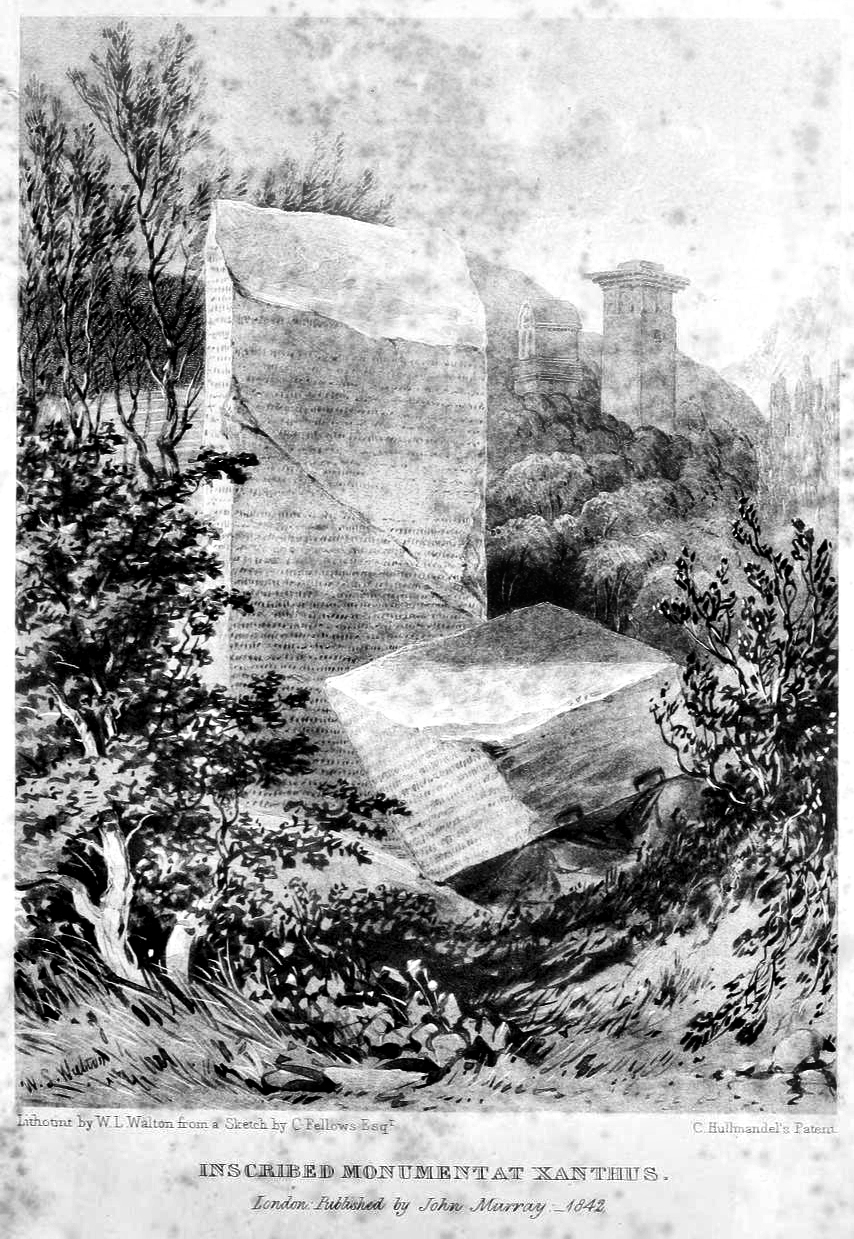 Xanthos Obelisk upon discovery